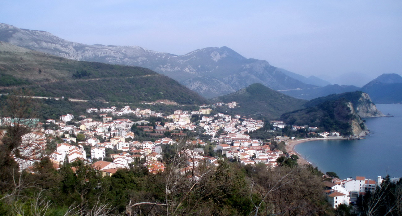 Petrovac in Adriatic Sea.